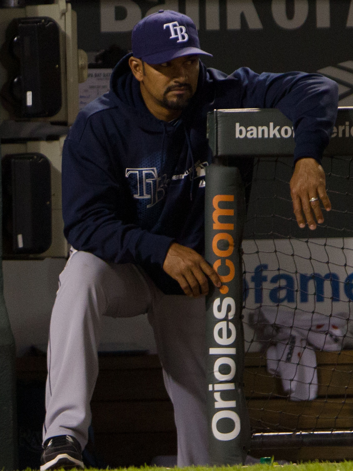 Tampa Bay Rays manager Joe Maddon (left), pitching coach Jim Hickey (center) and bench coach Dave Martinez (right) watch a game between the Rays and Baltimore Orioles on May 11, 2012 from the dugout at Camden Yards in Baltimore.